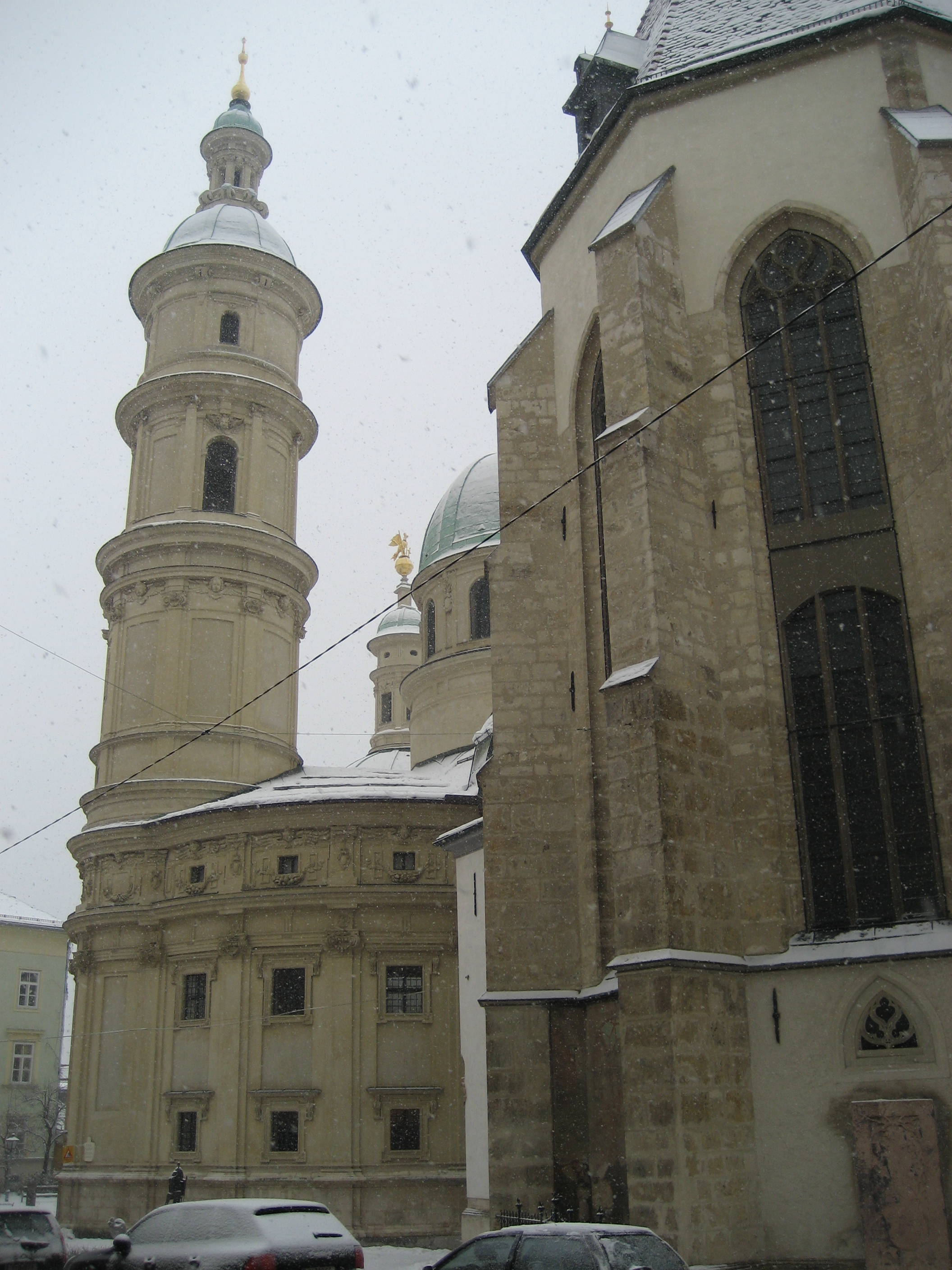 Katharinenkirche, Mausoleum and Cathedral. Graz, Austria